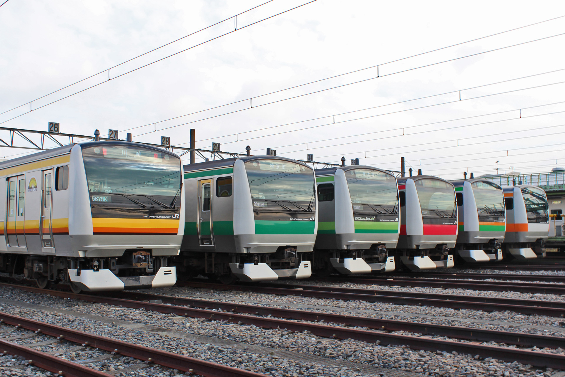 A line-up of different JR East E233 series EMU variants at Kawagoe Rolling Stock Center open day (left to right: Nambu Line E233-8000, Saikyo Line E233-7000, Yokohama Line E233-6000, Keiyo Line E233-5000, Takasaki Line E233-3000, Chuo Line E233-0 series)